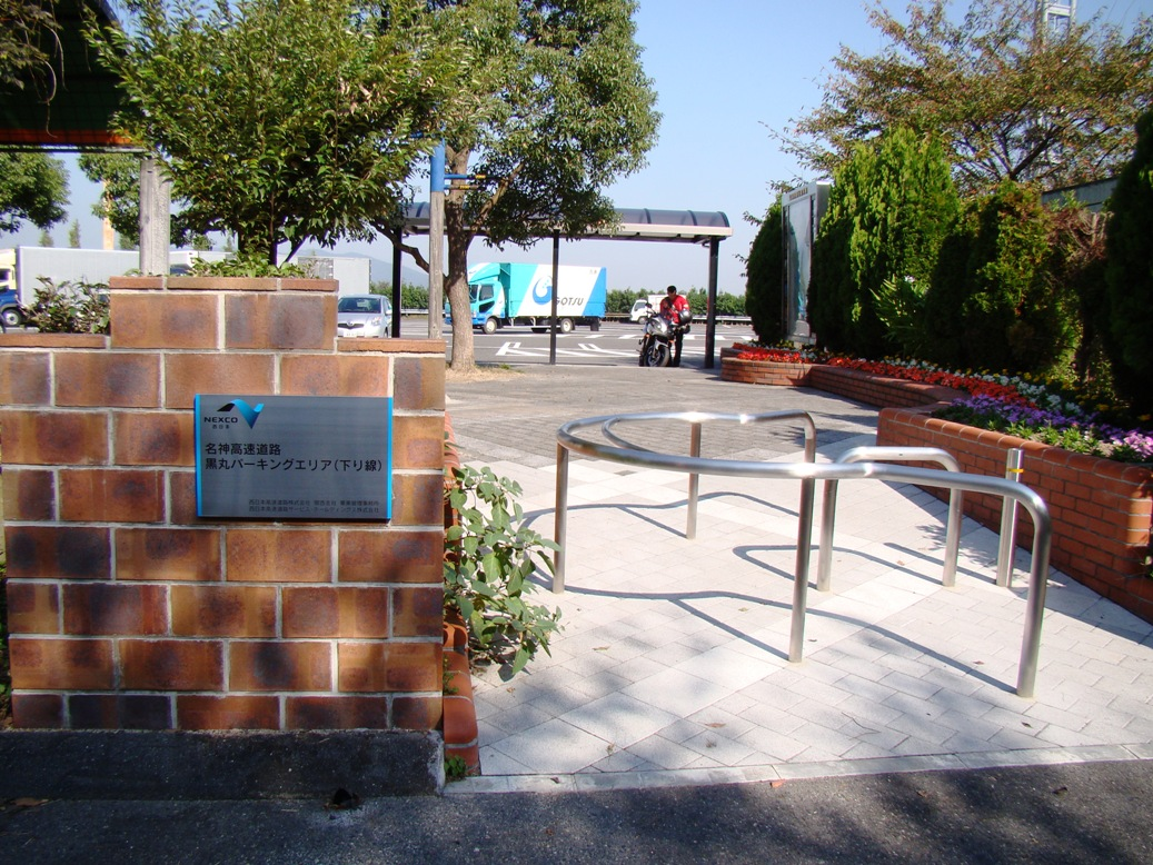 Kuromaru parking area welcome gate Meishin expressway Shiga Japan